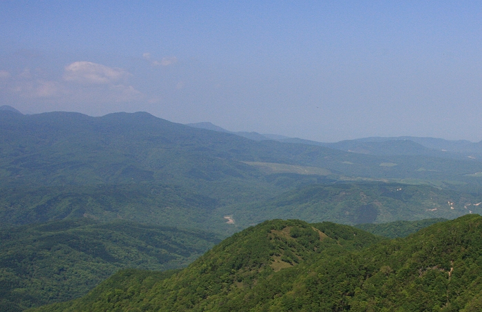 Mount Raiba (Raibadake) as seen from Mount Washibetsu